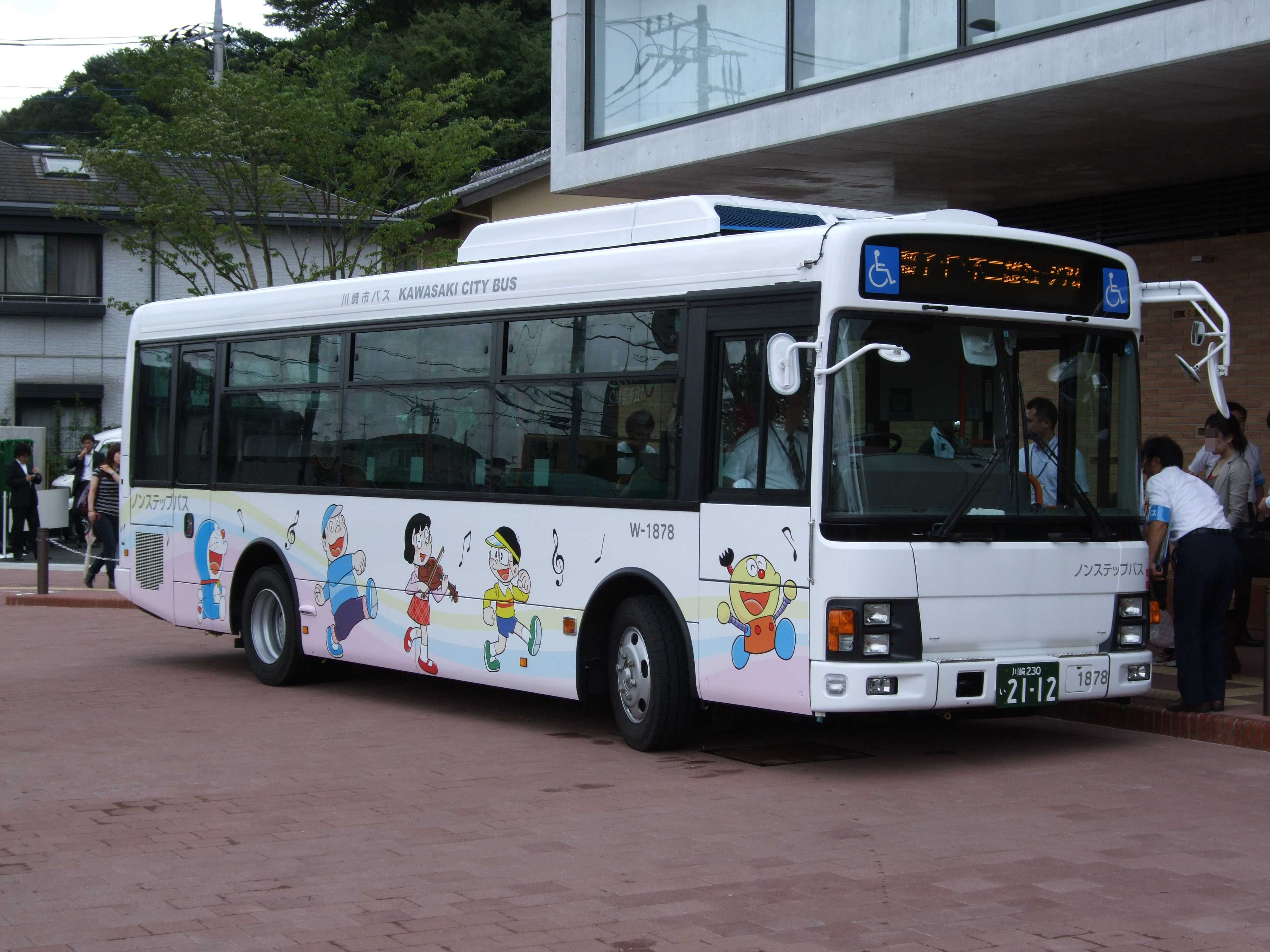 Kawasaki city bus Fujiko.F.Fujio Musium shuttle bus